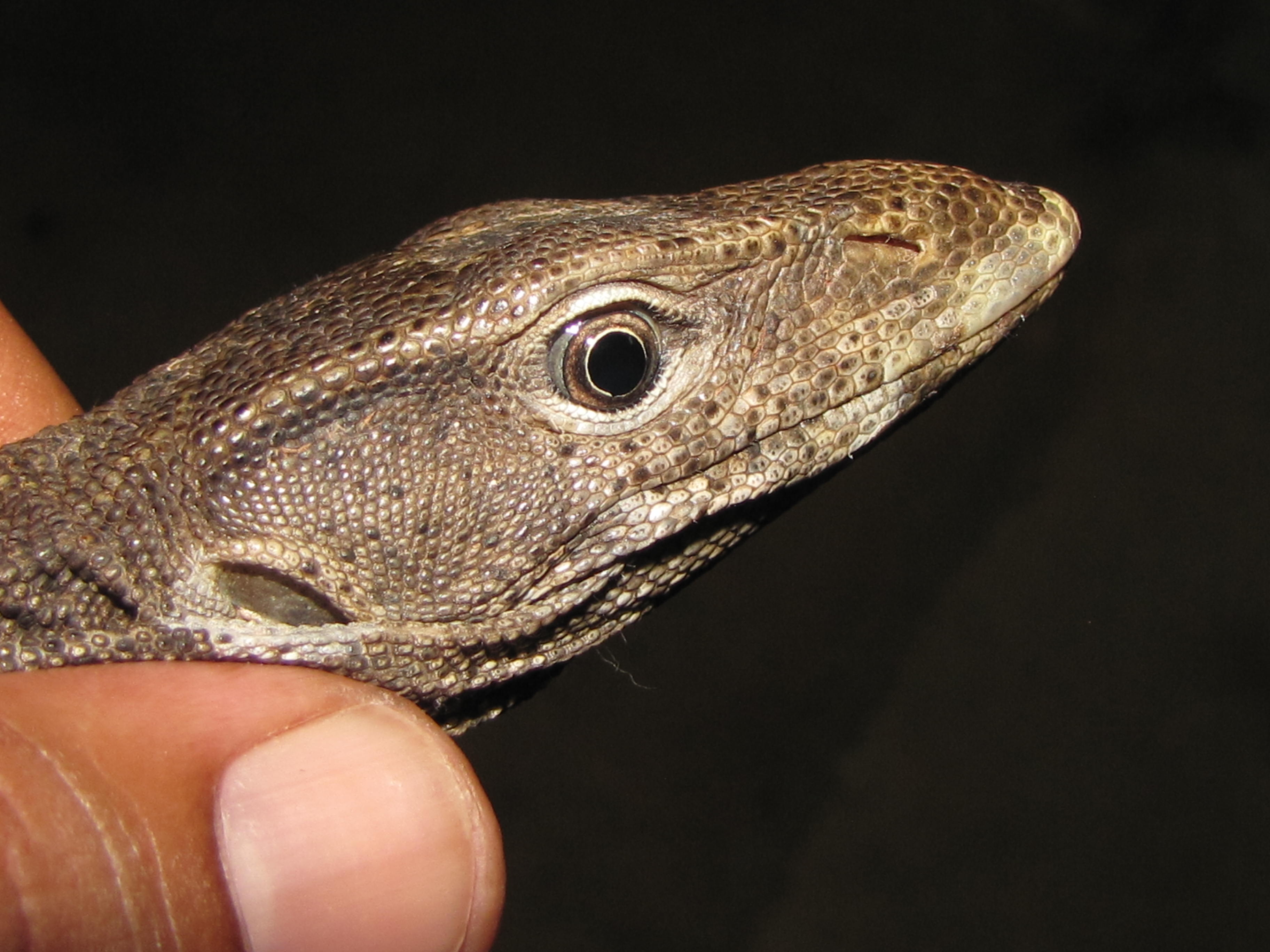 Varanus bengalensis, Kerala